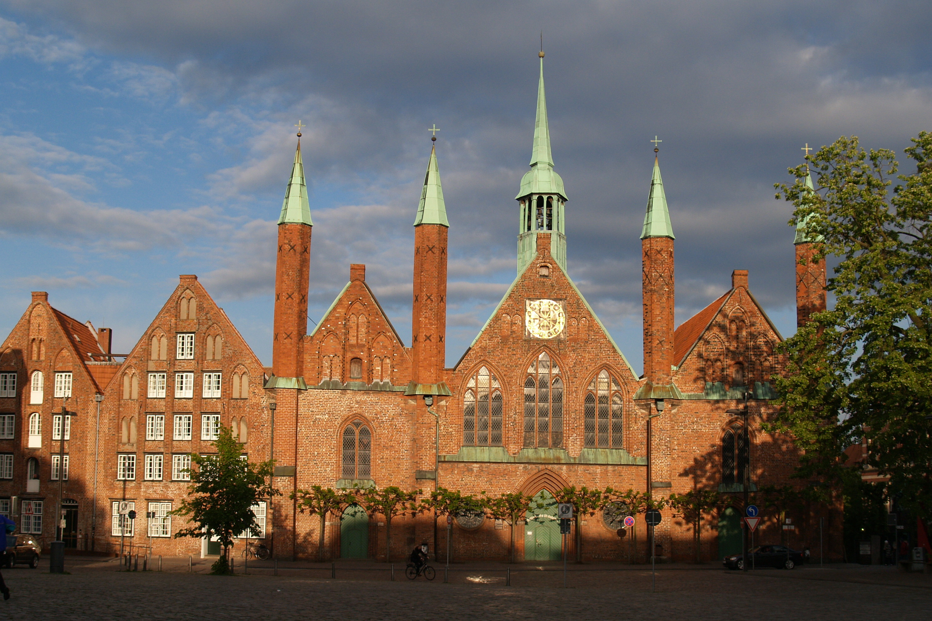 The Heiligen-Geist-Hospital is one of the oldest still working social buildings